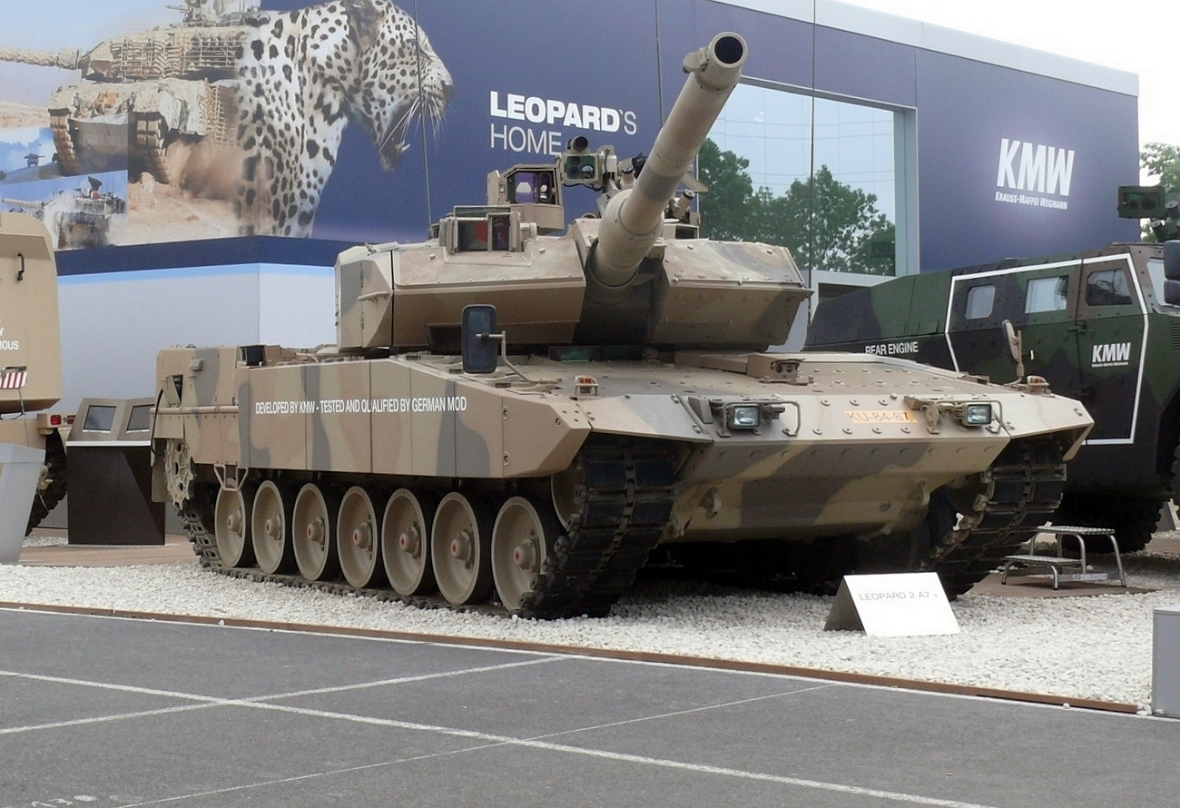 Leopard 2 A7 at Eurosatory 2010.